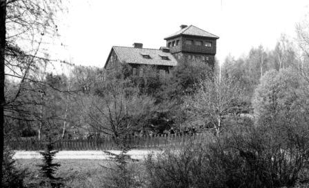 photos, sweden